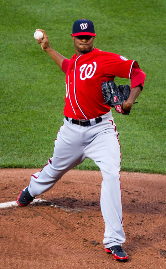 Edwin Jackson